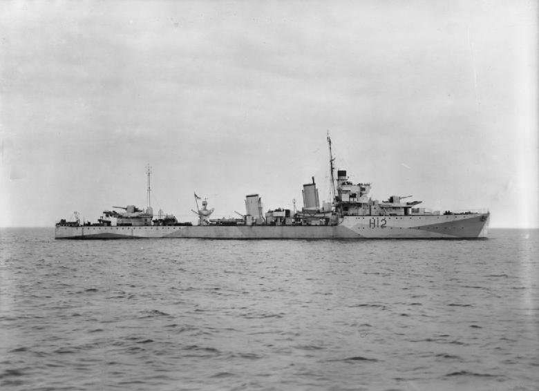 HMS ACHATES, an A class destroyer modified for escort work with a Hedgehog ASW in place of 'A' gun, at sea